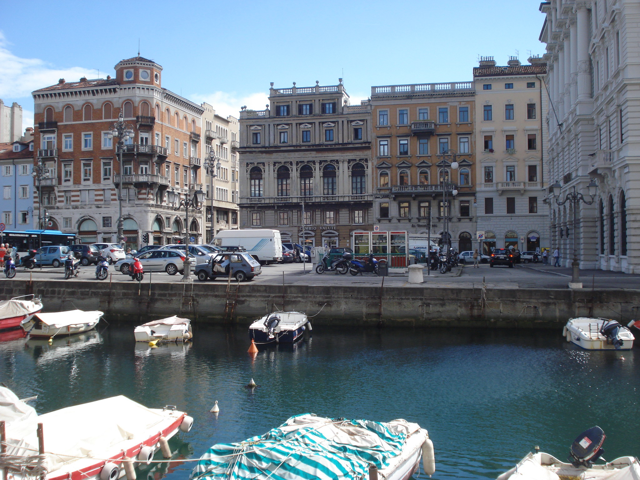 Ponterosso square (Red bridge square), Triest, Italy - car park